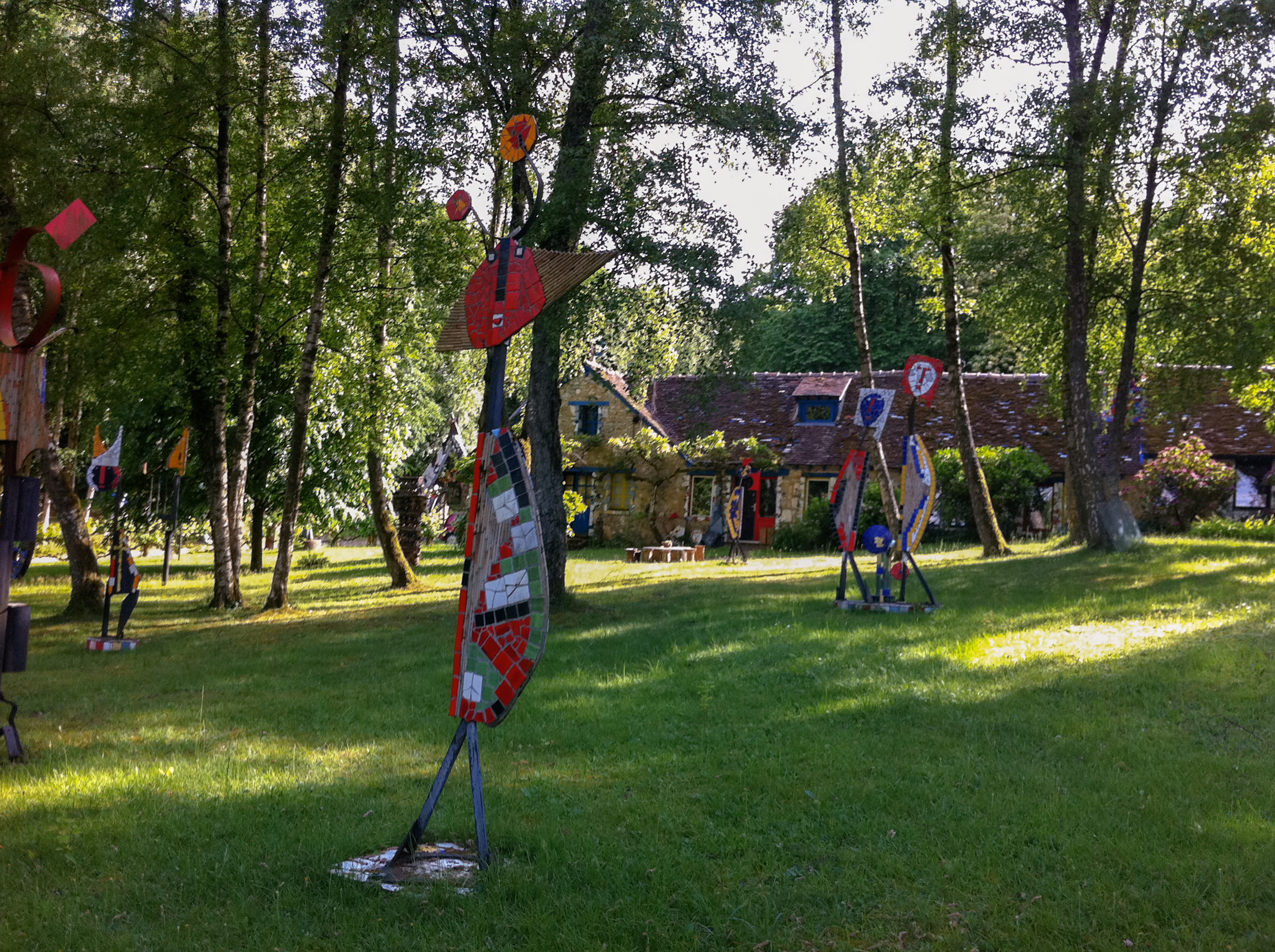 Jean Linard’s house from the road.